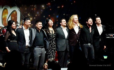 A photo taken during one of the performances during Dami Im's Yesterday Once More Tour around Australia July 2016 - Dec 2016